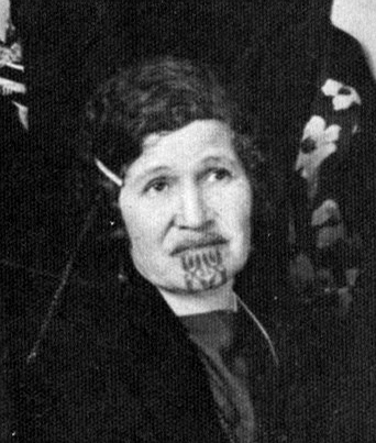 Arihi Kane Tamati (Lady Ngata) with Rarotonga Delegation to 1934 Waitangi Celebration - New Zealand).